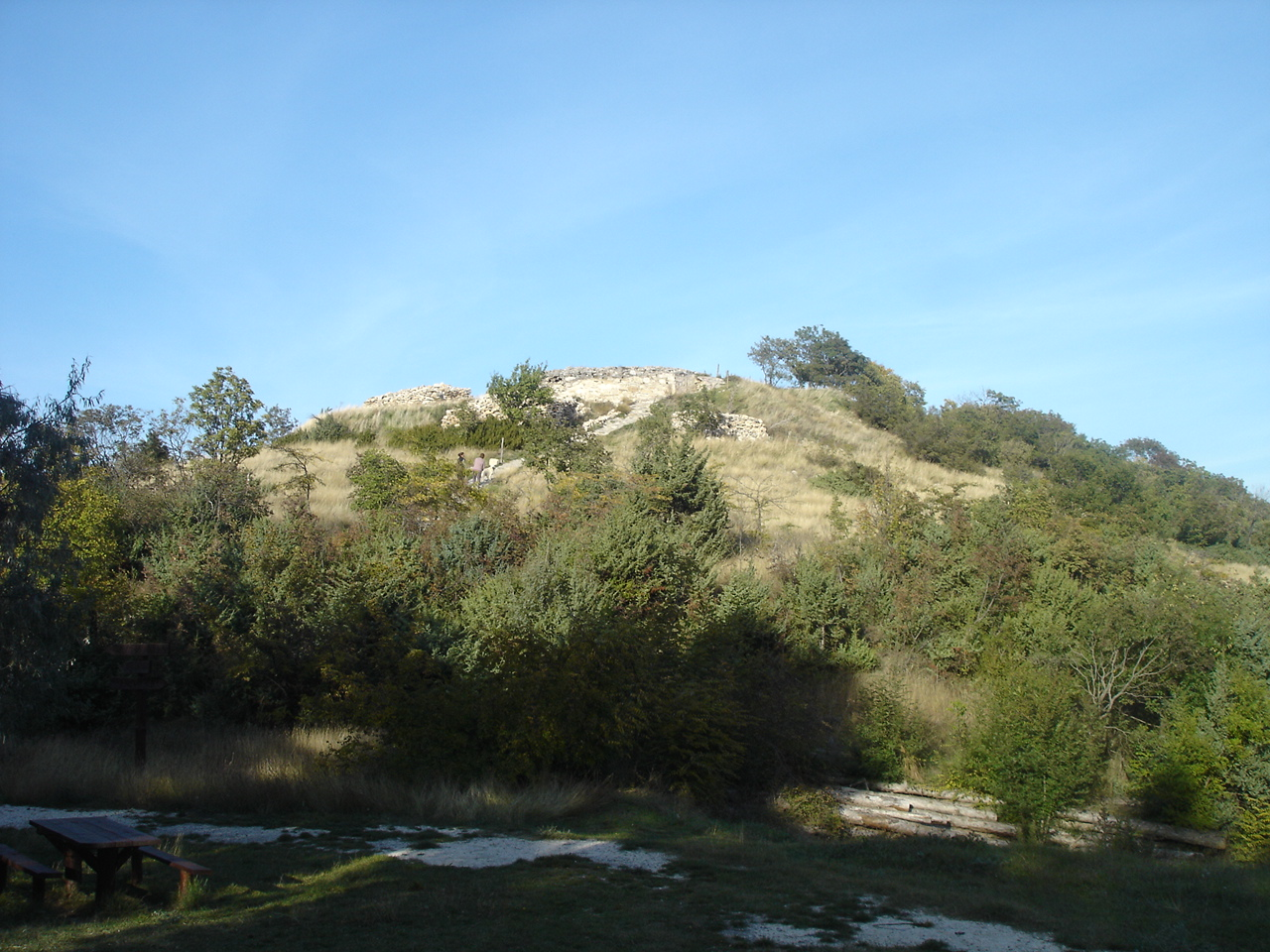 Remnants of the fortress Marko's Towers of Vodno mountain near Skopje, Macedonia